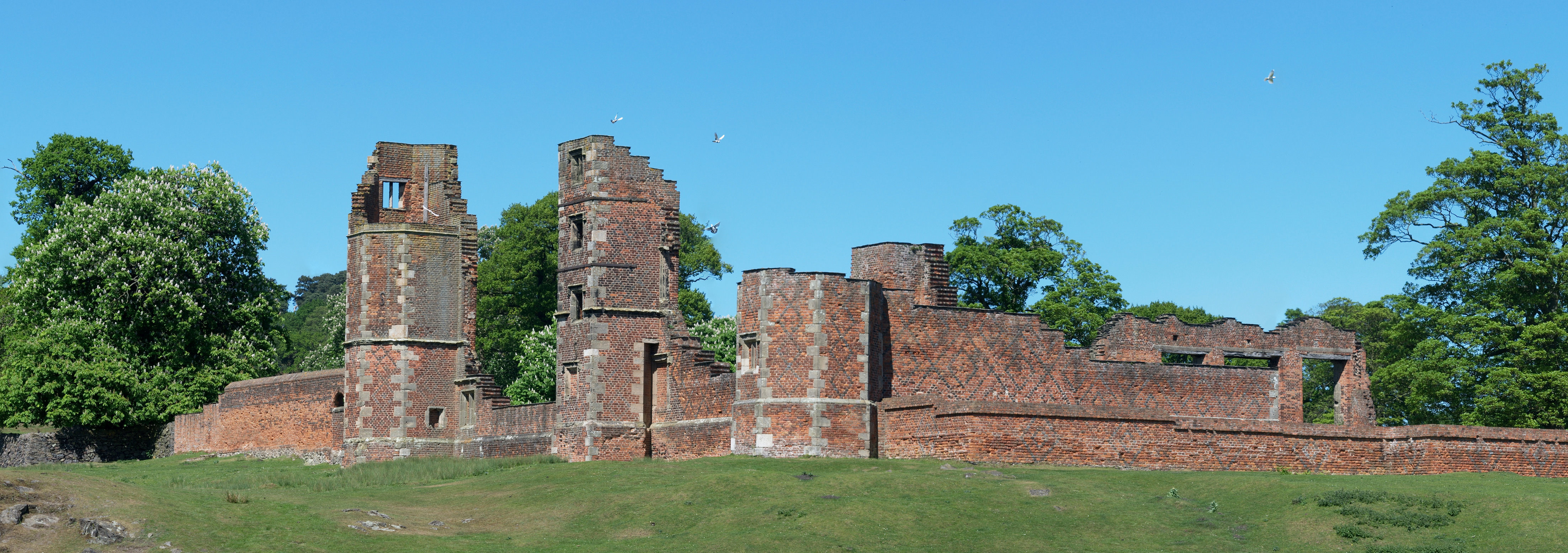 Bradgate House, Bradgate Park